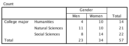 This table is an adaptation of the the table presented in question 1 at the bottom of Contingency Tables in Online Statistics Education: A Multimedia Course of Study Project Leader: David M. Lane, Rice University